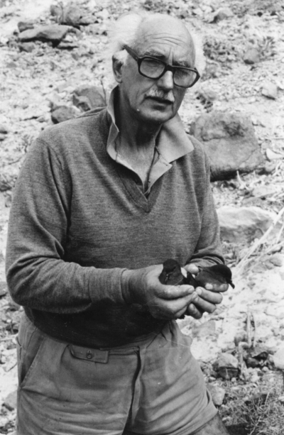 ornithologist